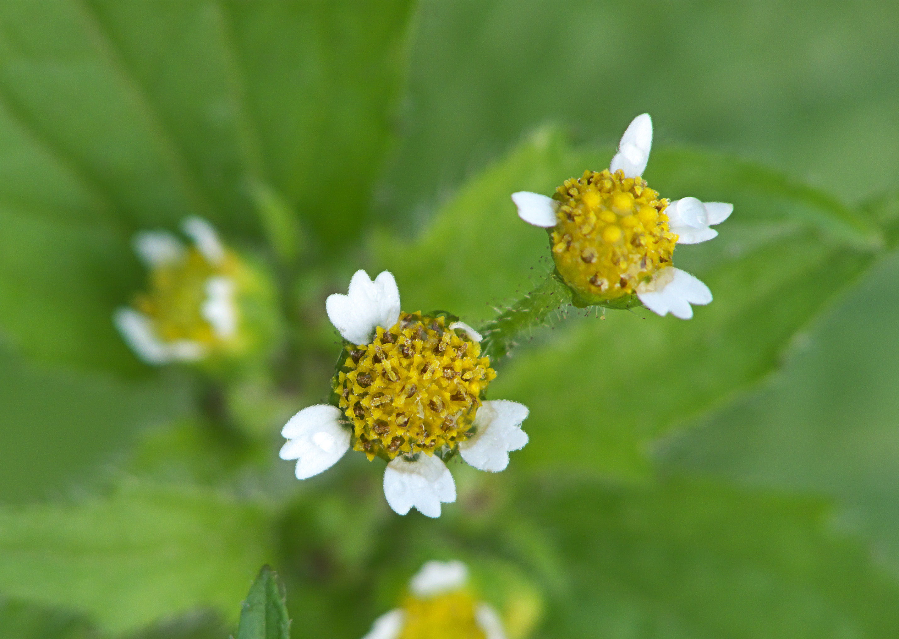 Galinsoga quadriradiata